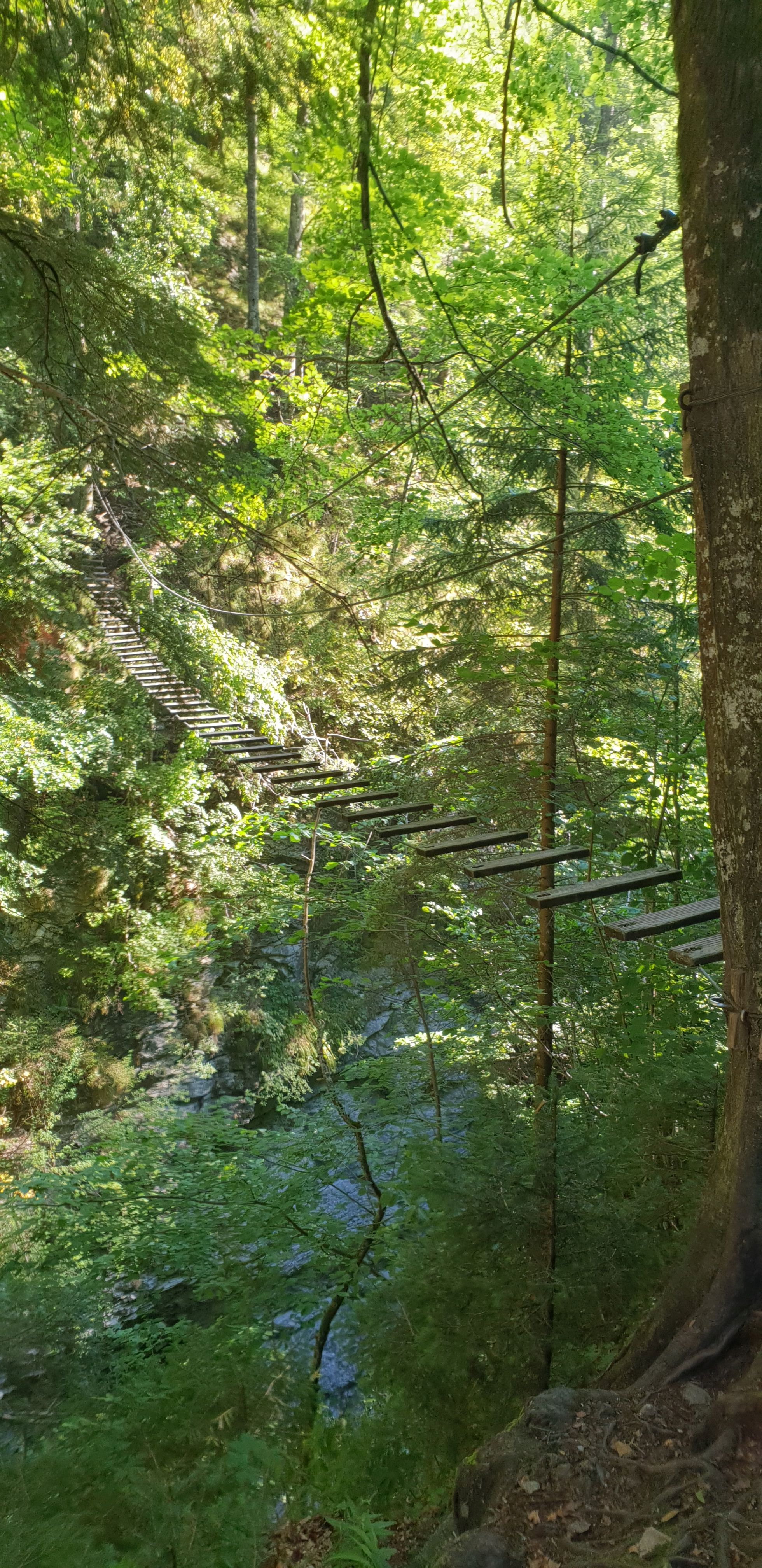 Wire bridge Seufzerbrücke at the Postalmklamm via ferrata in Salzkammergut, Austria